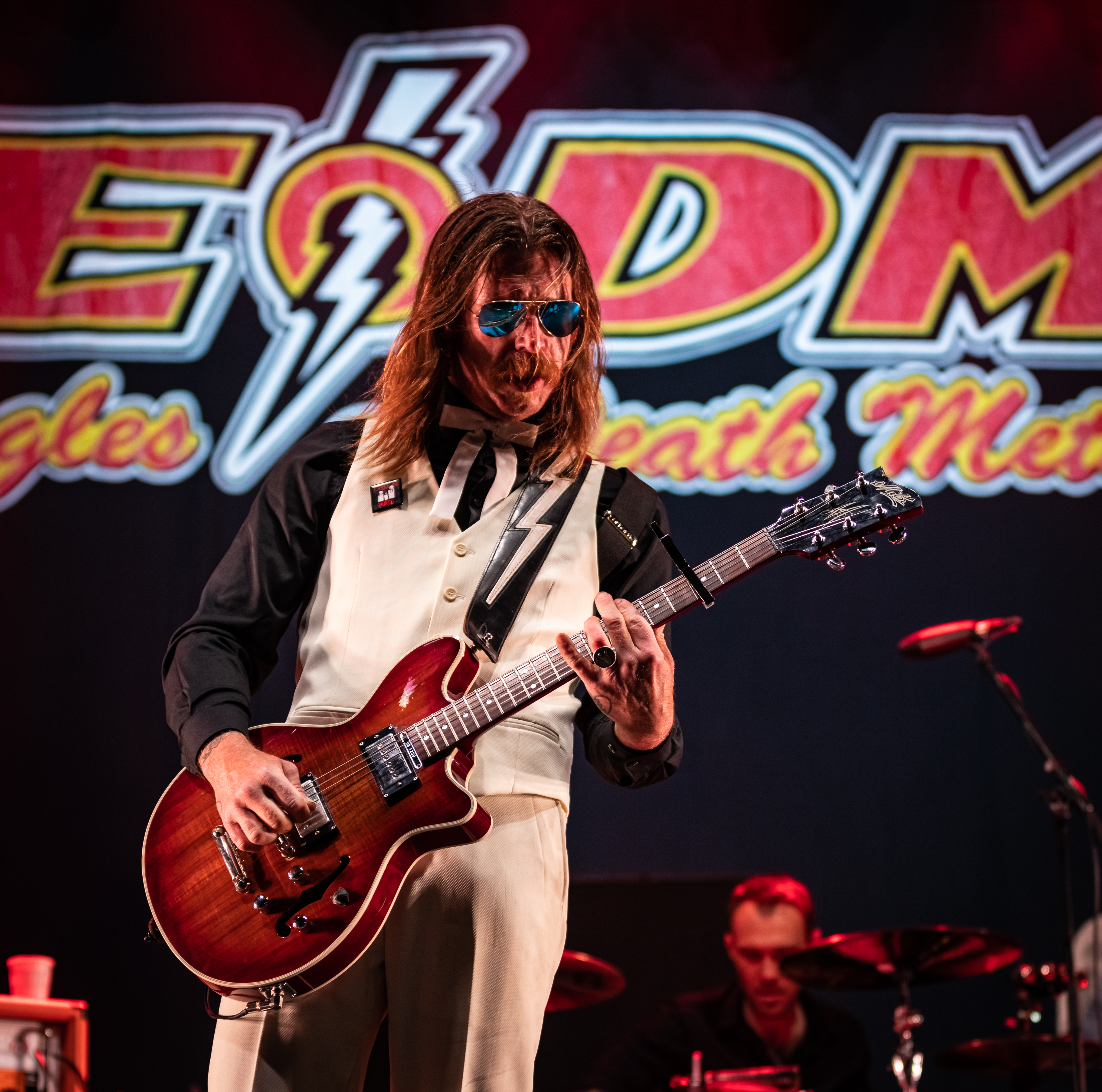 Eagles of Death Metal - Rock am Ring 2019